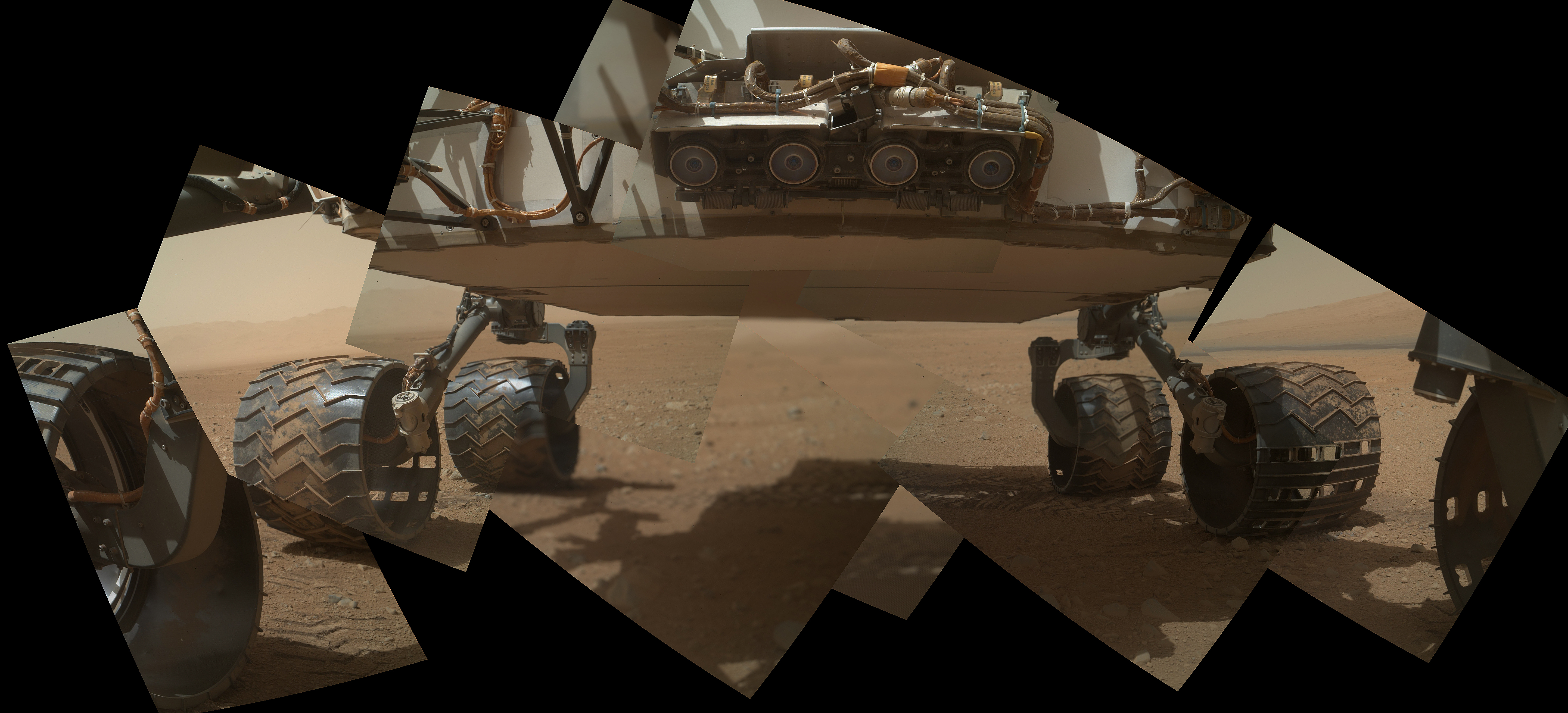 This view of the lower front and underbelly areas of NASA's Mars rover Curiosity combines nine images taken by the rover's Mars Hand Lens Imager (MAHLI) during the 34th Martian day, or sol, of Curiosity's work on Mars (Sept. 9, 2012). Curiosity's front Hazard-Avoidance cameras appear as a set of four blue eyes at the top center of the portrait. Fine-grain Martian dust can be seen adhering to the wheels, which are about 16 inches (40 centimeters) wide and 20 inches (50 centimeters) in diameter. The bottom of the rover is about 26 inches (66 centimeters) above the ground. On the horizon at the right is a portion of Mount Sharp, with dark dunes at its base. The camera is in the turret of tools at the end of Curiosity's robotic arm. The Sol 34 imaging by MAHLI was part of a week-long set of activities for characterizing the movement of the arm in Mars conditions. As this was a test to gain new information about operation of the instrument, the MAHLI team noted that two of the nine images acquired for this mosaic were not in focus. The main purpose of Curiosity's MAHLI camera is to acquire close-up, high-resolution views of rocks and soil at the rover's Gale Crater field site. The camera is capable of focusing on any target at distances of about 0.8 inch (2.1 centimeters) to infinity, providing versatility for other uses, such as views of the rover itself from different angles.